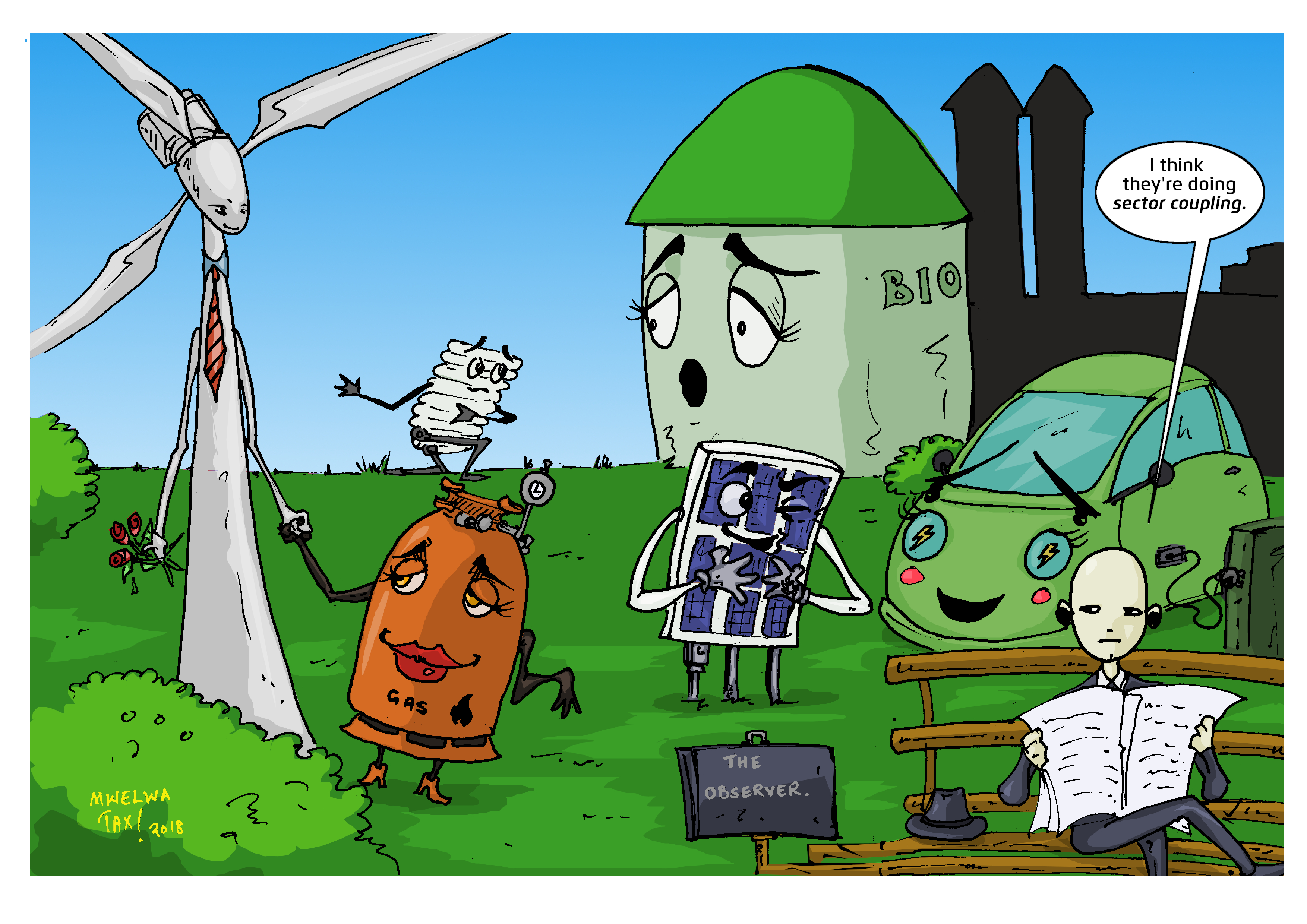 Sector coupling (German: Sektorkopplung) refers to the idea of interconnecting (integrating) the energy consuming sectors - buildings (heating and cooling), transport, and industry - with the power producing sector.